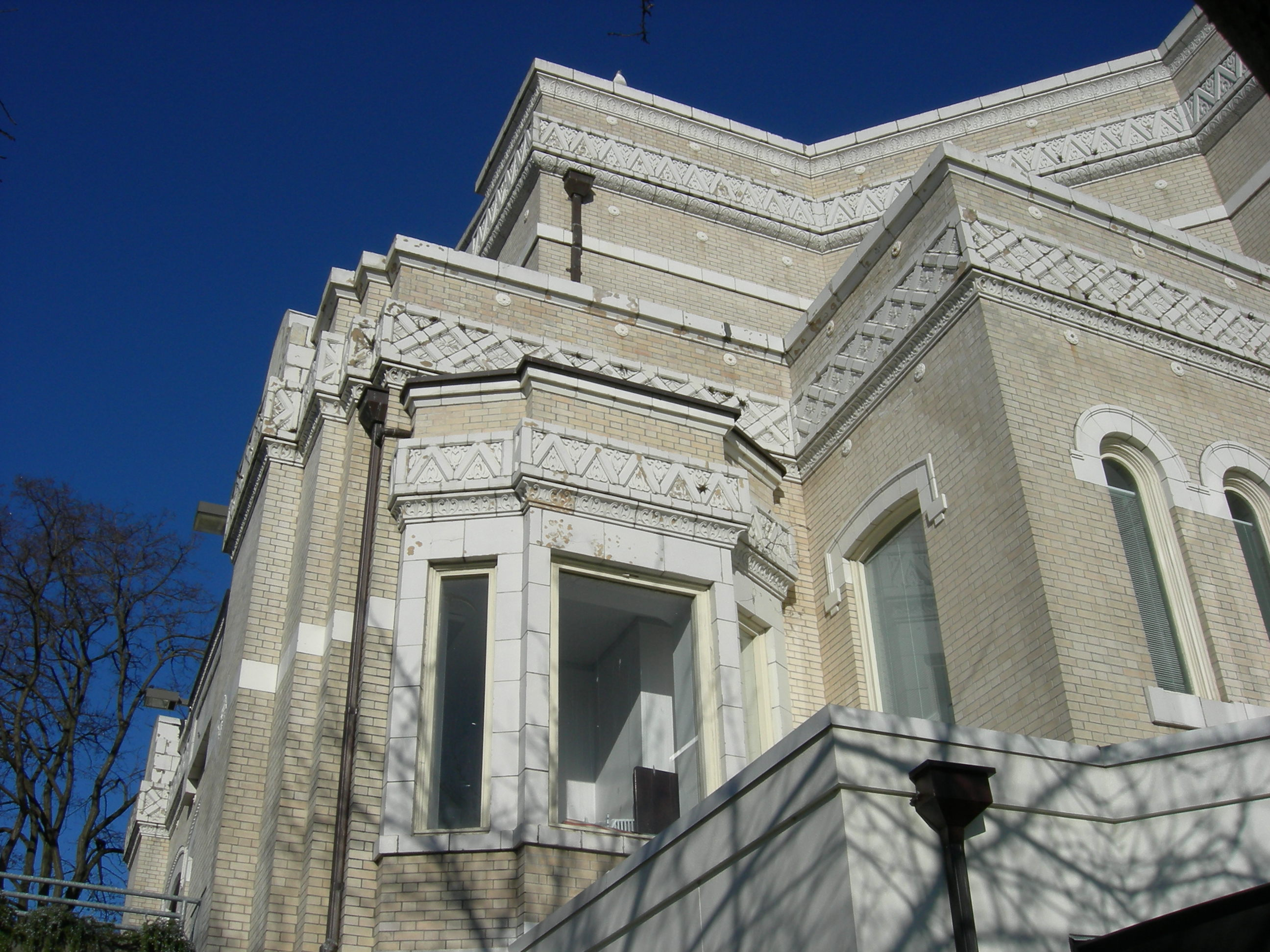 Langston Hughes Performing Arts Center, formerly the Jewish Synagogue of Chevra Bikur Cholim (1912), designed by B. Marcus Priteca